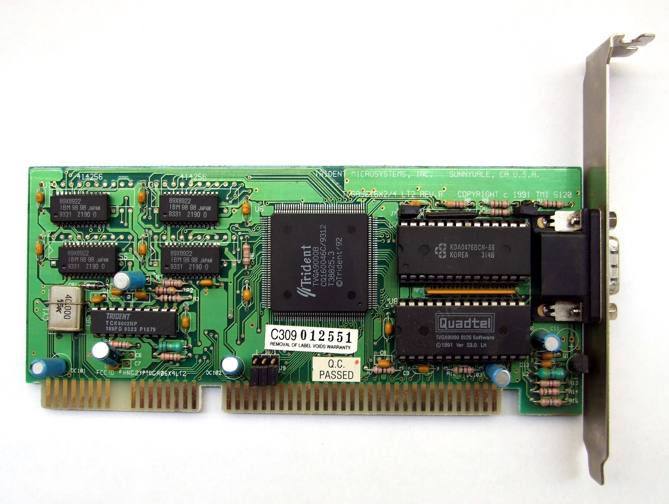 Old Trident TVGA9000 Graphics Card with 512 KB Video RAM, with Industry Standard Architecture (ISA) bus.